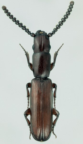 Dorsal AutoMontage photo of Taphrosclidia linearis.